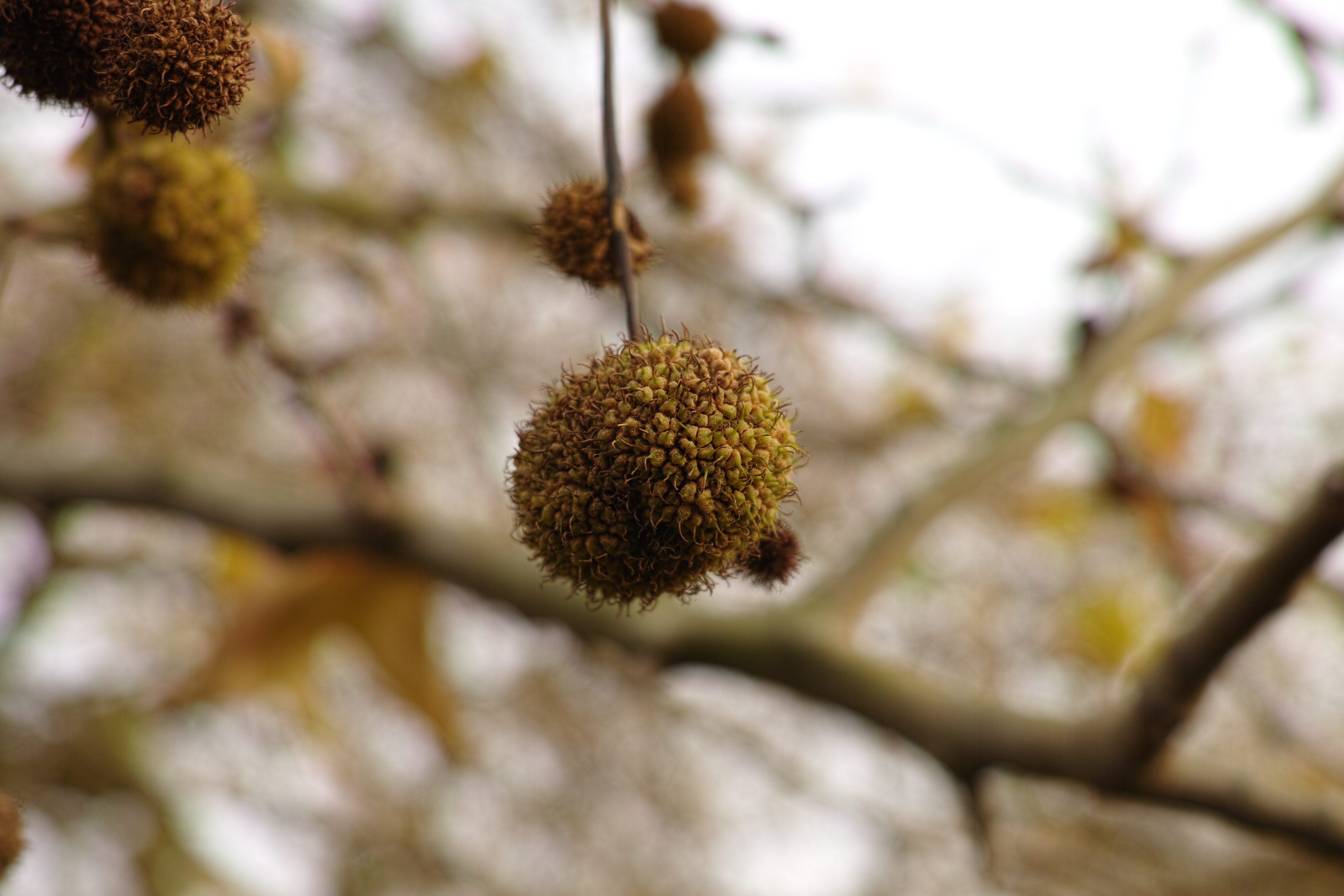 The fruit of a London Plane hanging on the tree, taken in England in Autumn.